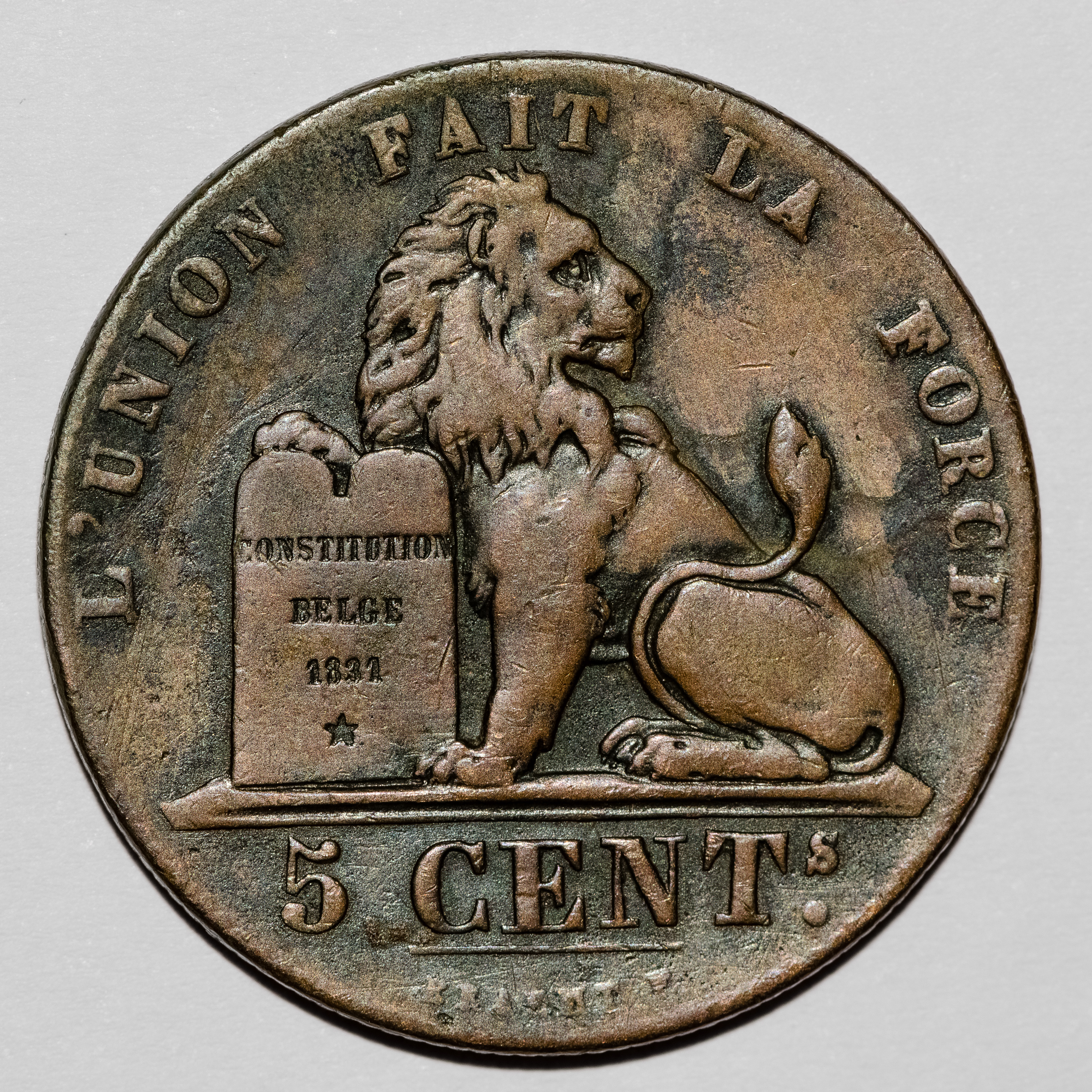 5 cent coin from Belgium, 1856, front-view